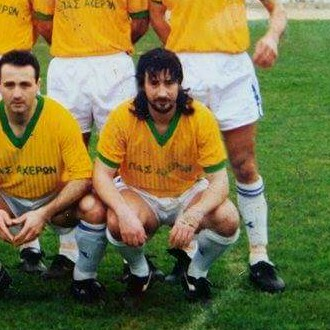 Arben Arbëri playing for a team in greece.